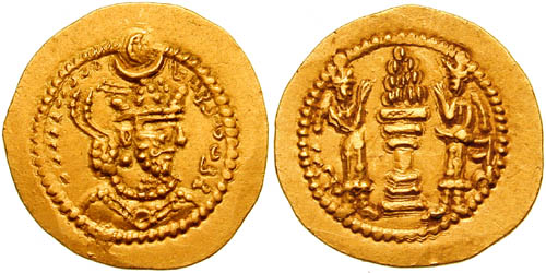 Coin of Yadzgard II, Sasanian king